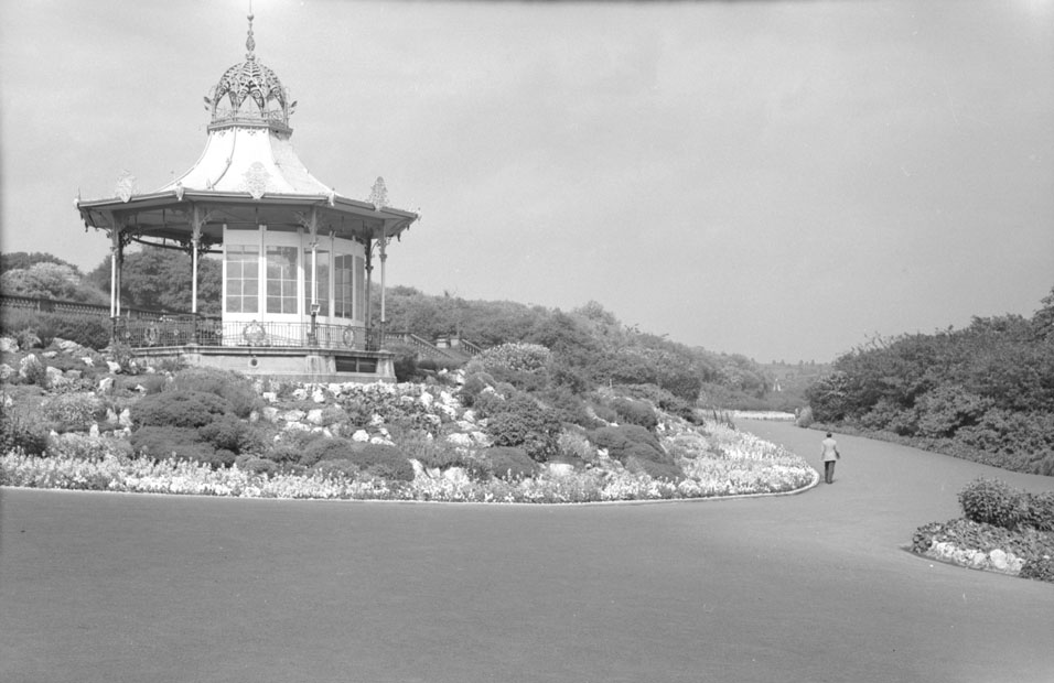 This is a photograph of the Bandstand, South Marine Park, South Shields, August 1950. Reference: DT.TUR/2/5197U This photograph is part of a set that has been created to celebrate the opening of South Tyneside Council’s new leisure centre, Haven Point, on 28 October. It focuses in particular on life along the foreshore at South Shields during the 1950s but also includes a few images from further down the coast. South Shields has long been a popular seaside resort and also has a proud industrial heritage. Times have changed, though, and many of the old industries such as shipbuilding and coal mining have disappeared. Rather than stand still and accept this change in fortunes, South Tyneside Council is pressing ahead with an ambitious vision to transform the Foreshore, Town Centre and Riverside areas into vibrant destinations. Haven Point is a key part of this change. Tyne & Wear Archives and South Tyneside Local Studies Library have a vital role to play in this. As South Shields is regenerated and forever changed the Archives and Local Studies serve as its memory. We keep alive a window into the town’s past, preserving the history of people, places and industries that no longer exist. South Shields must look forward but its sense of direction will be lost if it forgets where it came from. These images, together with a fantastic selection from South Tyneside Local Studies Library, can be seen in a digital exhibition at Haven Point. You can also see images from the Local Studies Library online at A Blog on this collection of images can be read (Copyright) We're happy for you to share these digital images within the spirit of The Commons. Please cite 'Tyne & Wear Archives & Museums' when reusing. Certain restrictions on high quality reproductions and commercial use of the original physical version apply though; if you're unsure please